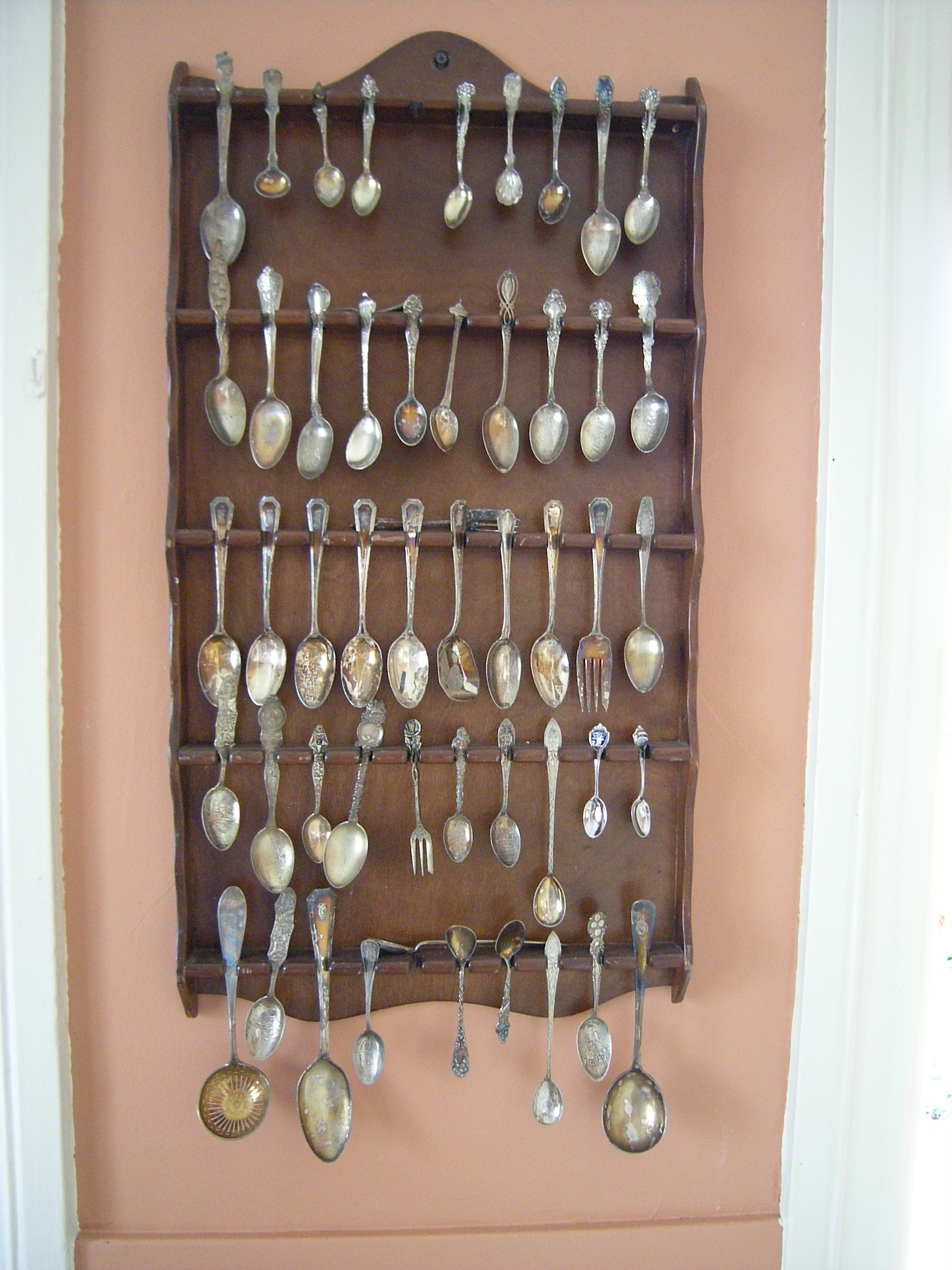 Wooden spoon rack, Nelsen Family Residence, Tukwila, Washington.